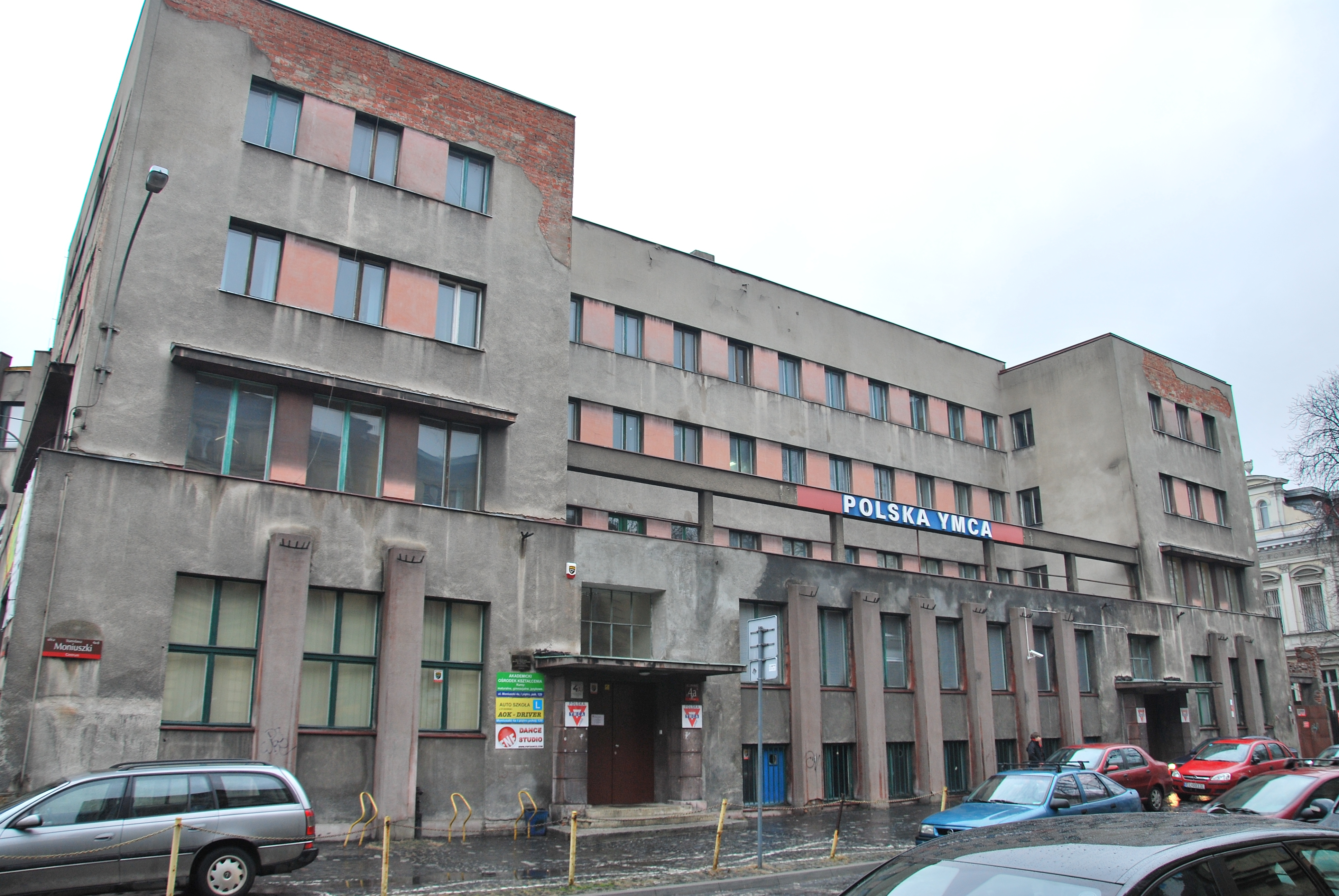 YMCA in Łódź, Moniuszki Street